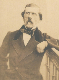 Nicolas Adolphe de Galhau